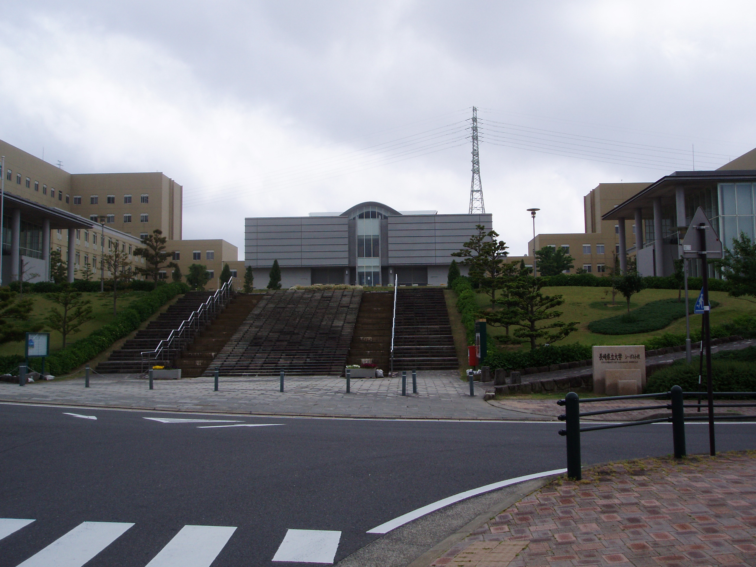 University of Nagasaki, Siebold Campus